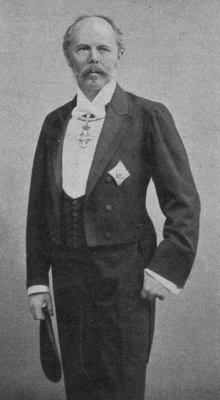 The Austrian conductor Ernst von Schuch.